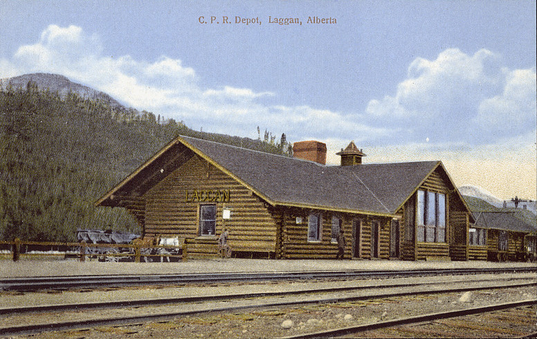 old postcard circa 1915 showing the Lagan, Alberta CPR depot. Now known as Lake Louise.